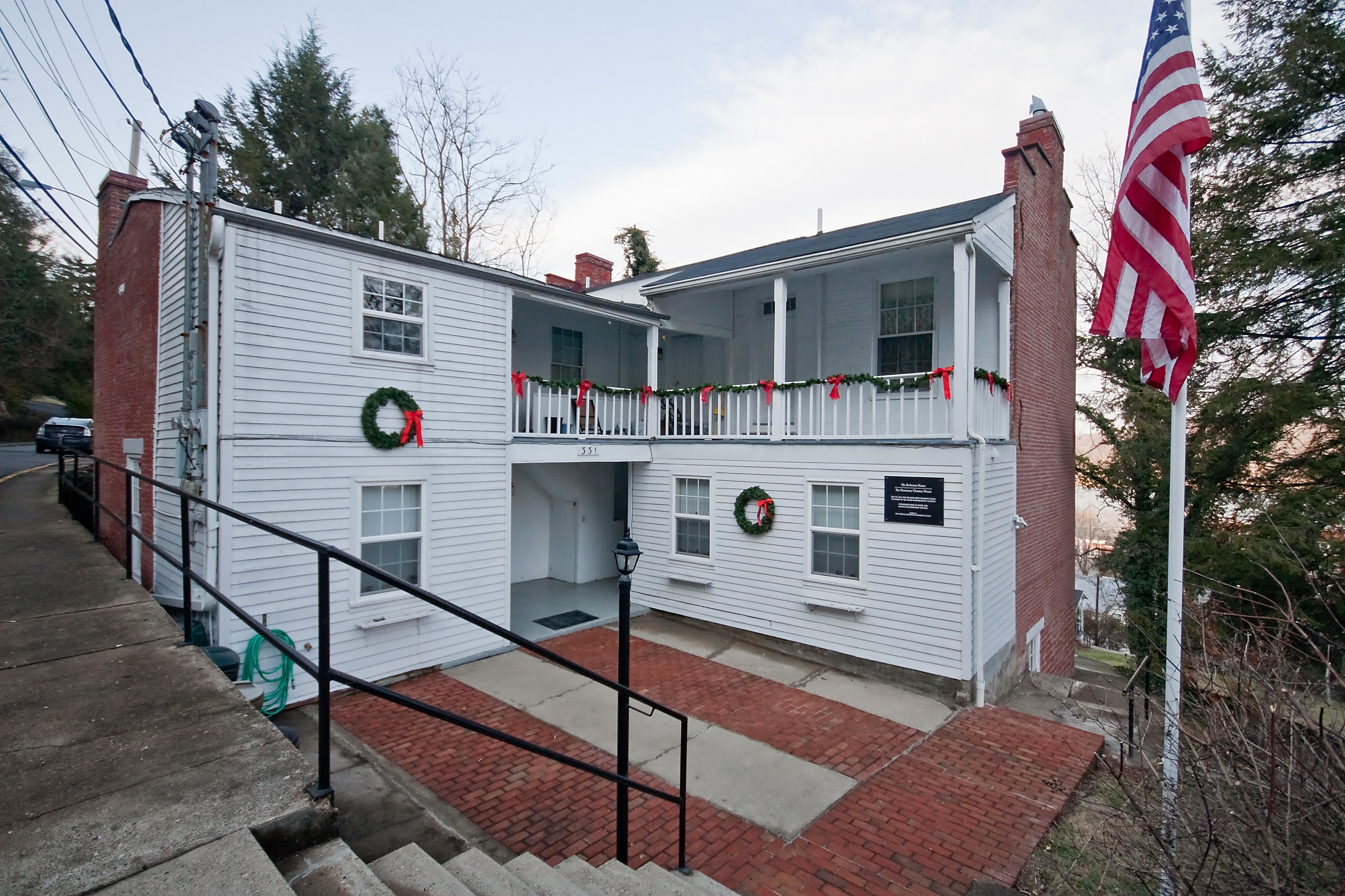 John Brett Richeson house in Maysville, Kentucky. Photo by Greg Hume